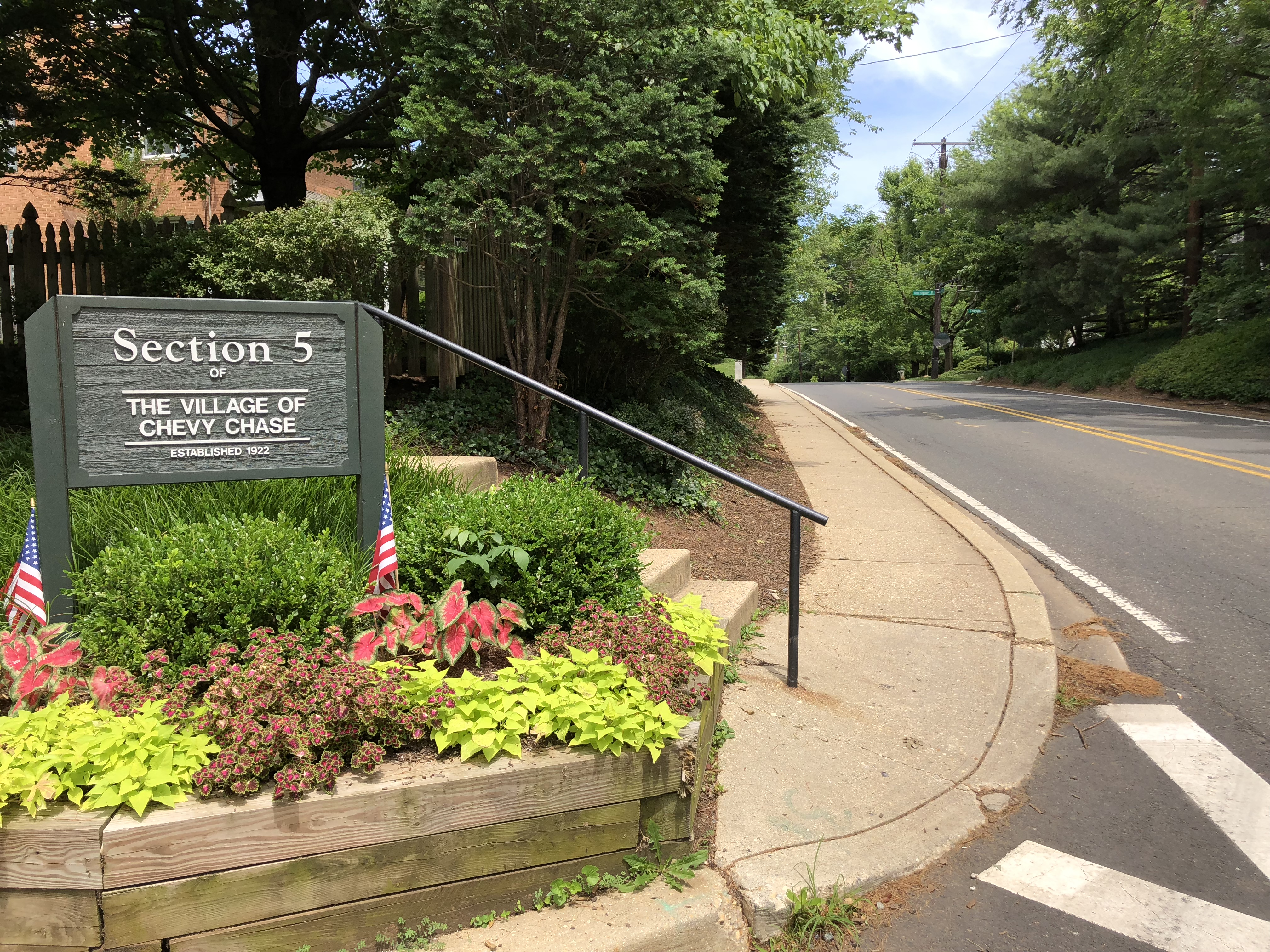 View north along Maryland State Route 186 (Brookville Road) at Thornapple Street in Chevy Chase Section Five, Montgomery County, Maryland